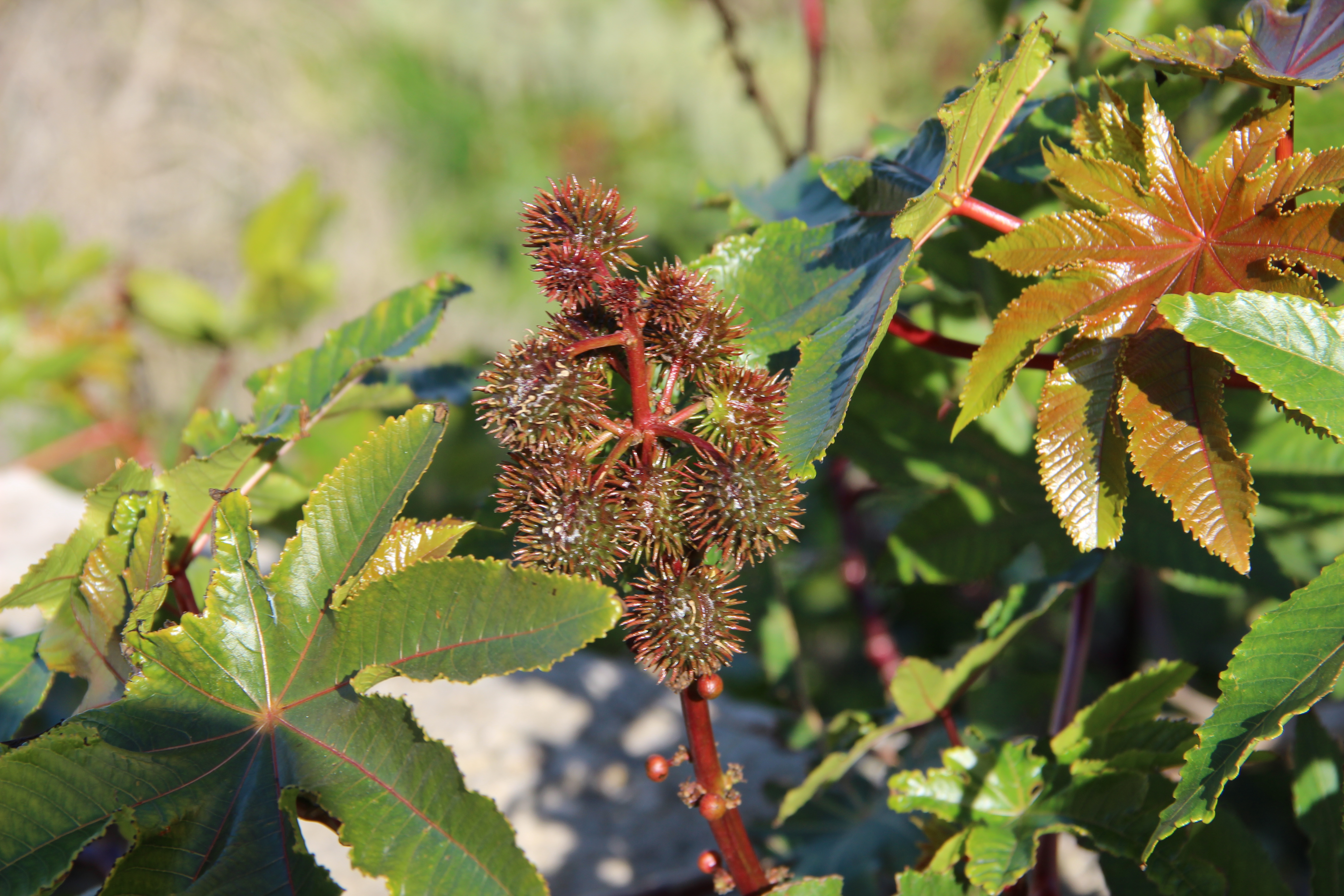 Castor oil plant